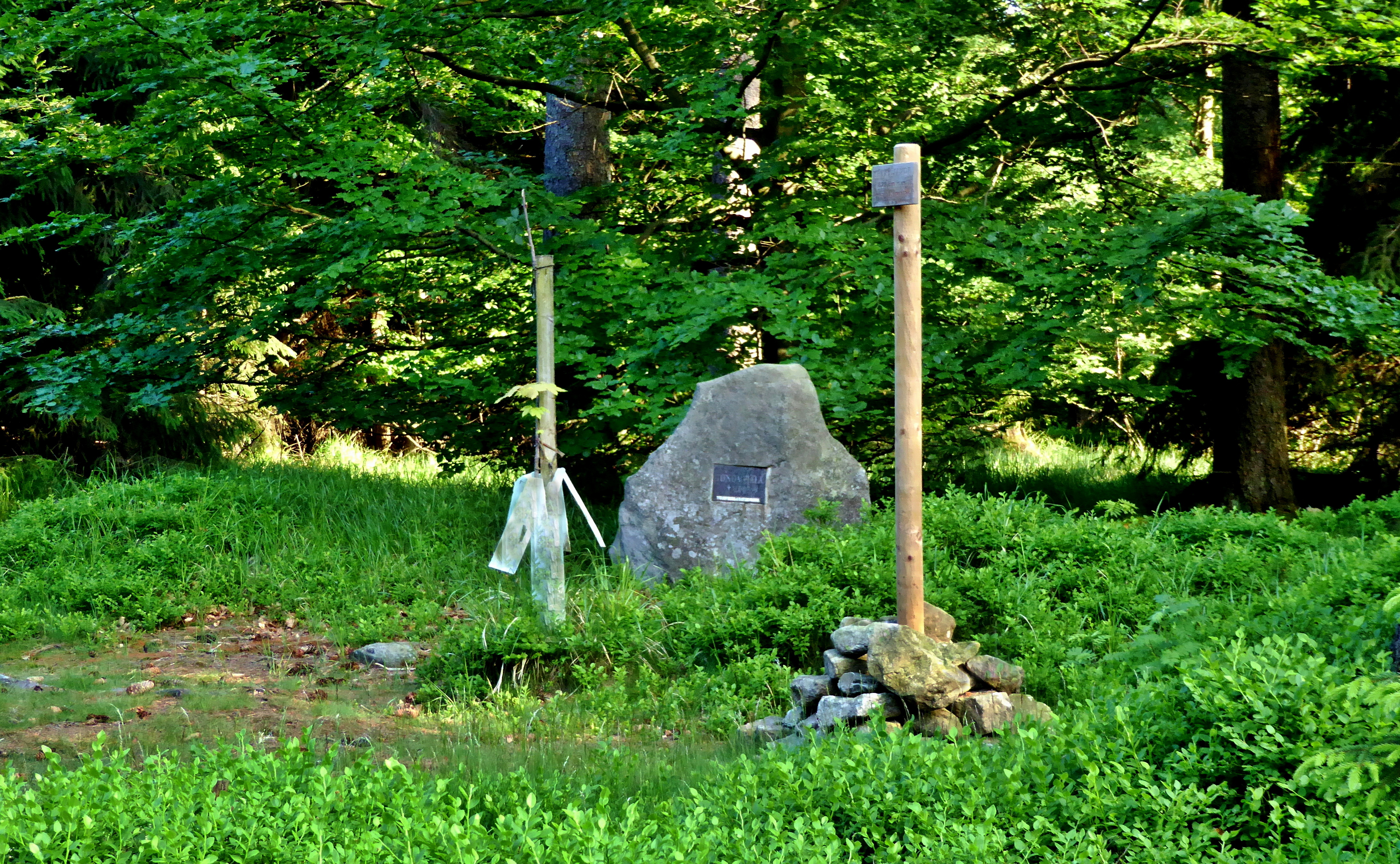 Crooked maple (czech: Křivý javor) is the geographical name (oronymum) of the top with an altitude of 824 m in the georelief of the flat ridge of the "Devítiskalská" highlands, in the landscape area "Žďárské" hills. Within administration, it is located in the cadastral area of the village Fryšava pod Žákovou horou in the district Žďár nad Sázavou, belonging to the Vysočina Region in the Czech Republic. On top is in 2004 a tree planted (maple), the stone monument of a forester (Tonda Fiala + 2007) and also tourists placed the designation of the top (see photo). The maple planted by citizens from the village of Fryšava pod Žákovou horou. Photo-location: Czechia, "Vysočina" Region, the village Fryšava pod Žákovou horou, "Devítiskalská" highlands, the Crooked maple, the forest locality (180°).